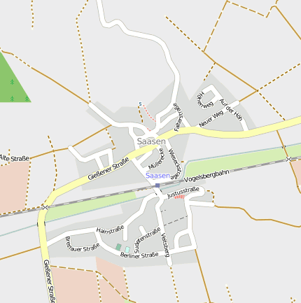 Saasen